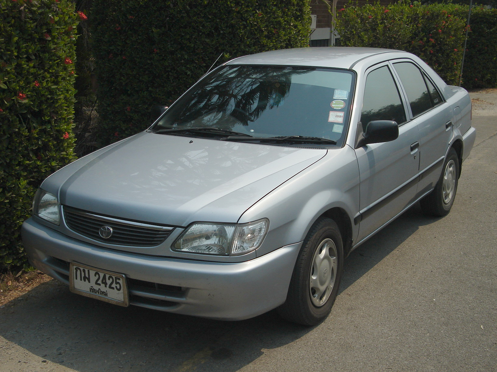 Toyota Soluna 1.5 SLi (AL50), photographed in Thailand.